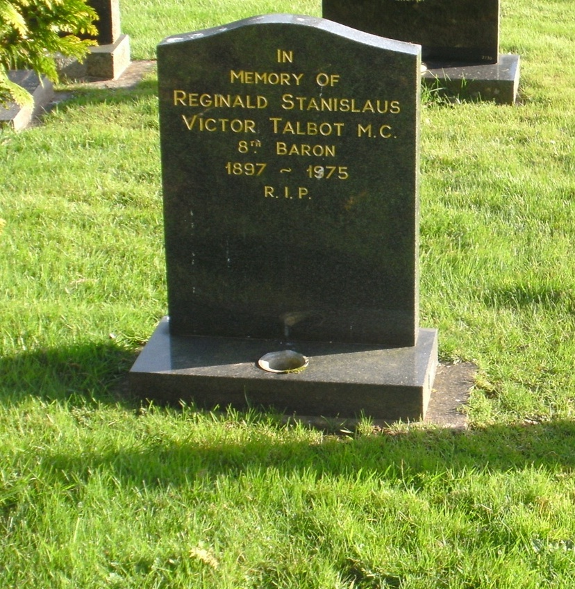 grave of Reginald Stanislaus Victor Talbot, 8th Baron Talbot of Malahide (1897–1975), in the cemetery of Brecon, Powys, Wales